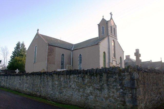 St Michaels Saint Michaels Catholic Church in Tomintoul.